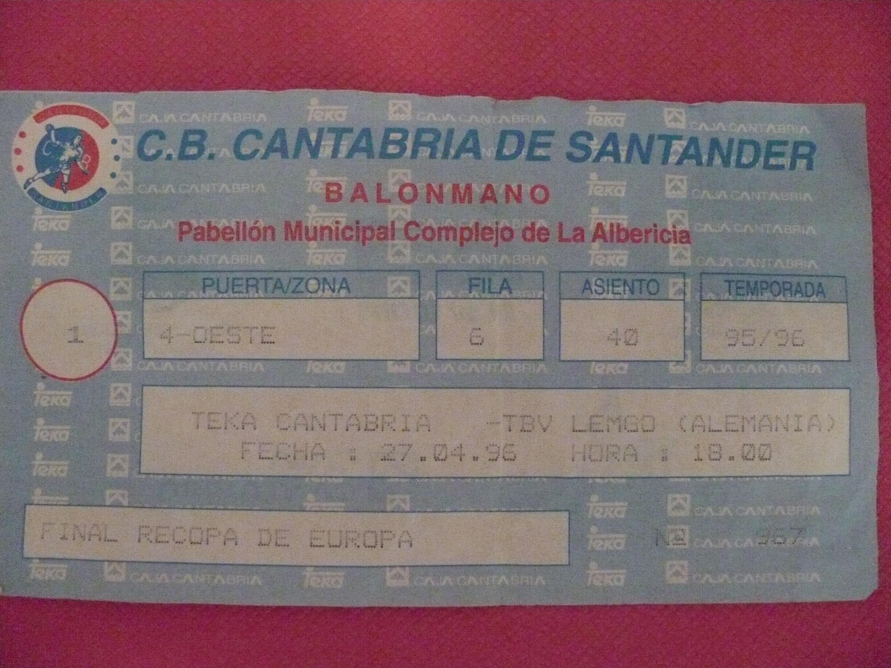 Ticket for the second leg of the handball Cup Winner's Cup final between CB Cantabria and TBV Lemgo at La Albericia sports pavillion (Santandé, Cantabria) . April 27th, 1996